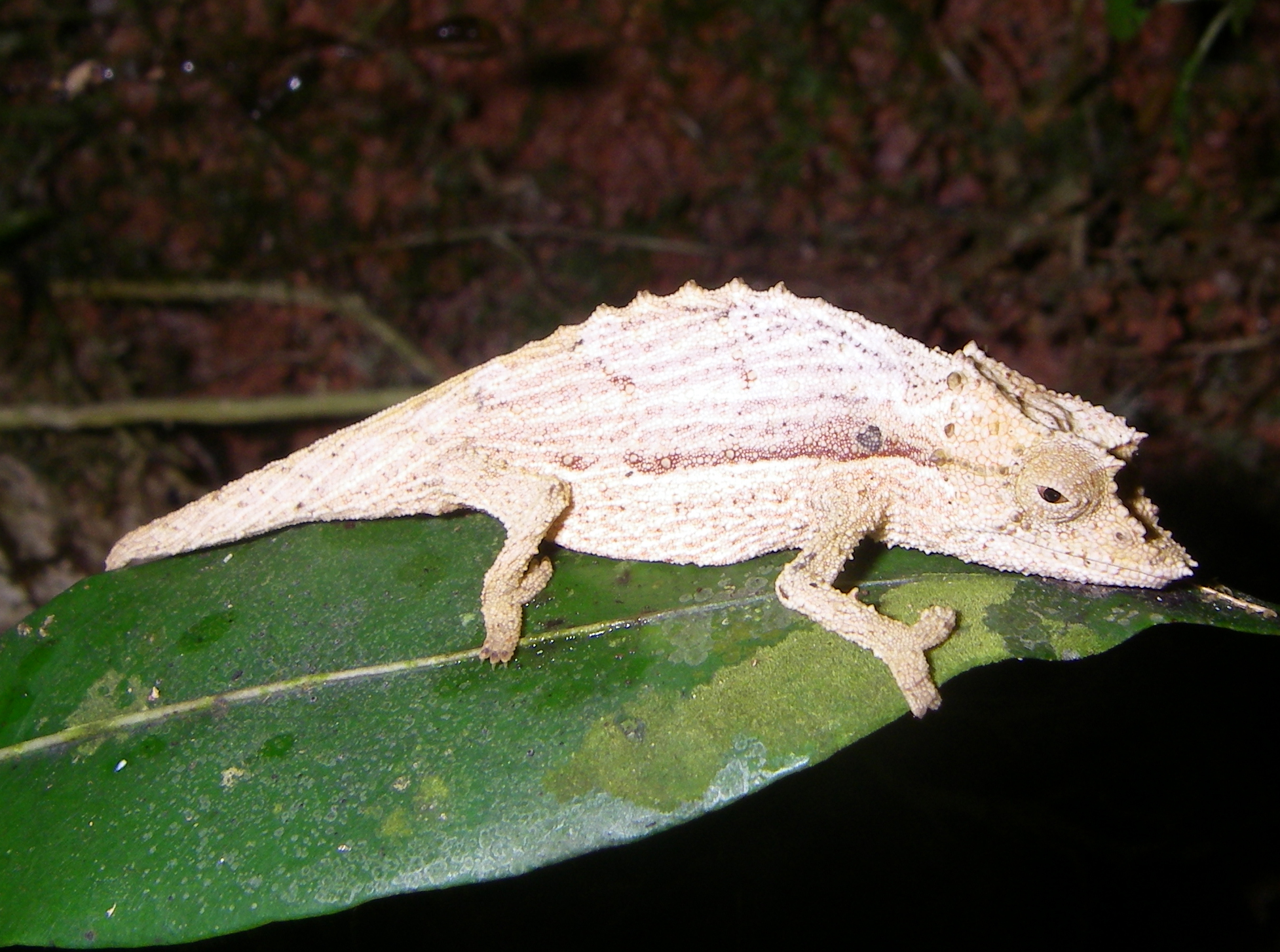 Brookesia nasus (Chamaeleonidae); Ranomafana National Park, Madagascar